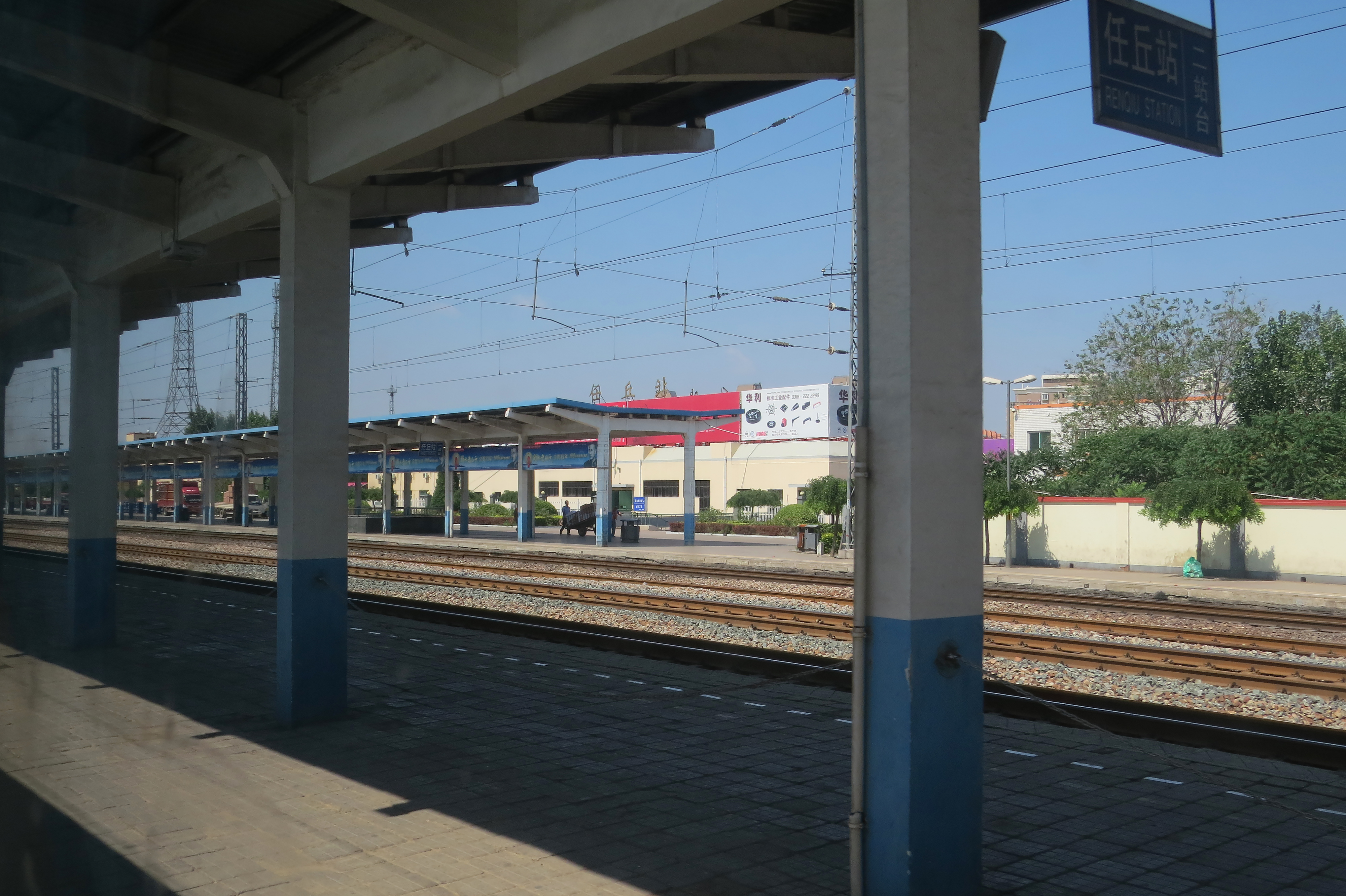 Note the Hengshui Laobaigan Liquor banners on the platform.